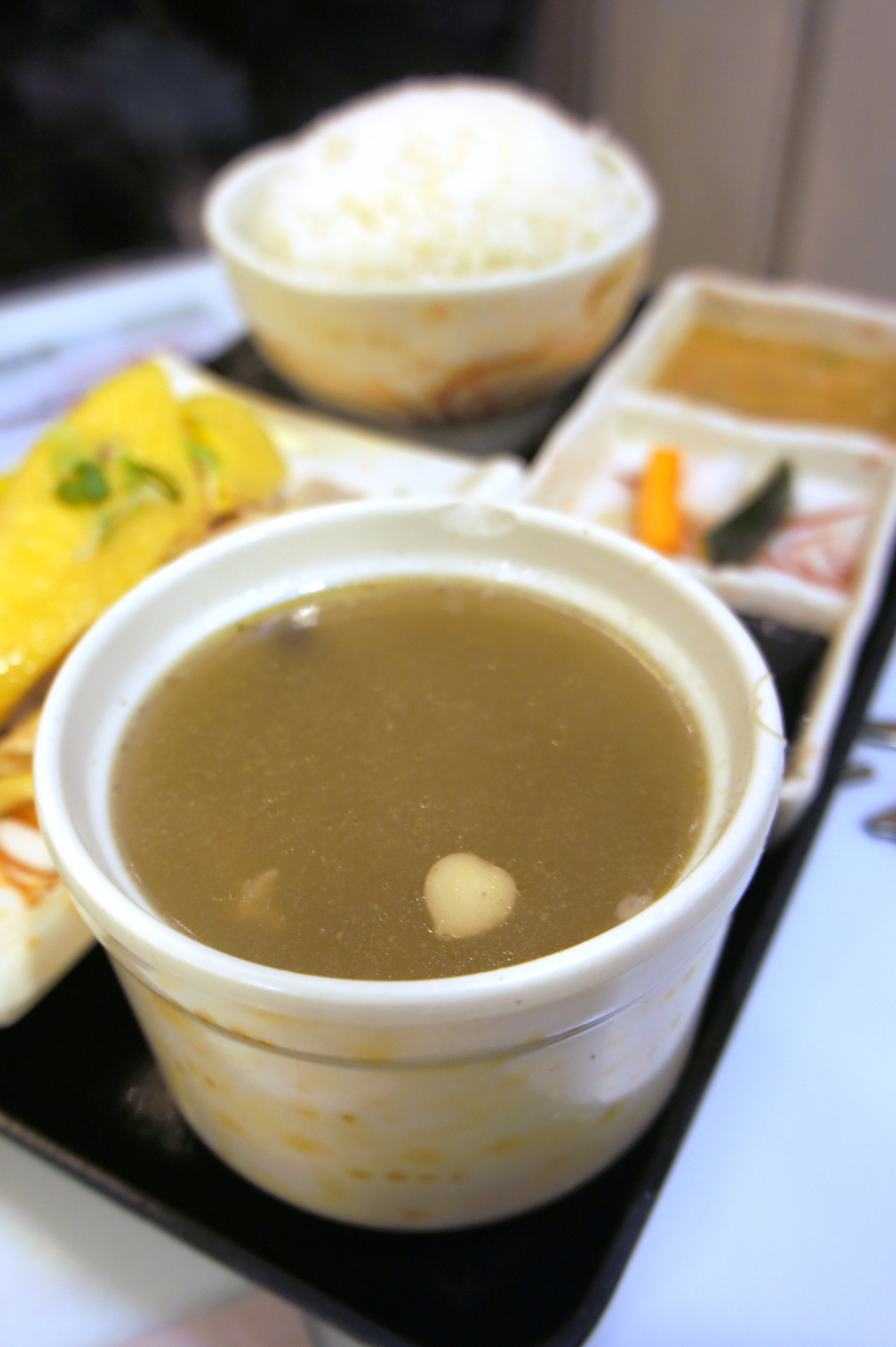 Soup of the Day, Hong Kong style.